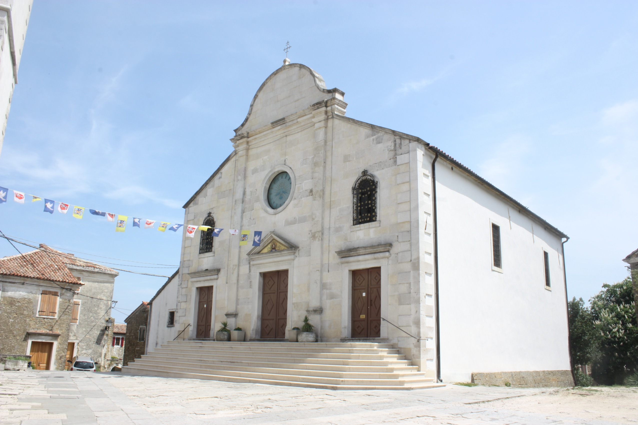 Oprtalj, the St. George church